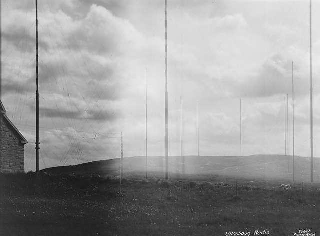 Stavanger Radio, Ullandhaug, Norway